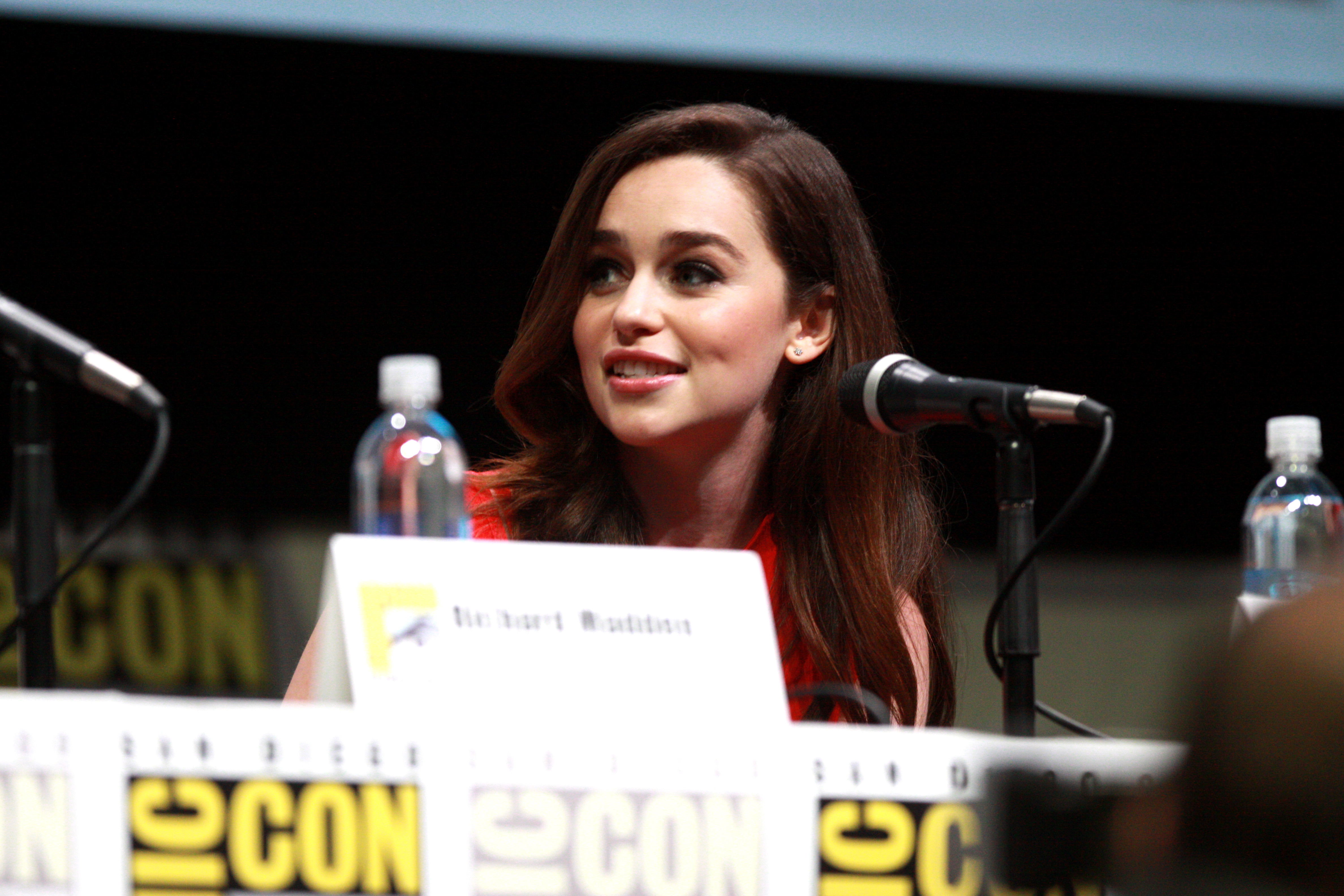 Emilia Clarke speaking at the 2013 San Diego Comic Con International, for "Game of Thrones", at the San Diego Convention Center in San Diego, California.